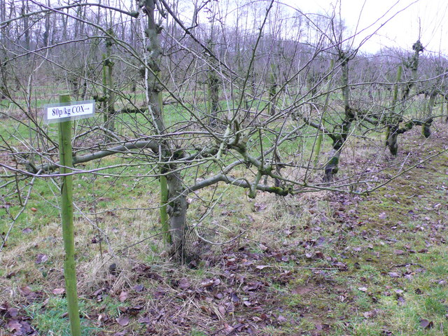 Cox's Apple Orchard at North Perrott Cheaper and fresher than Tesco's but you will have to go to North Perrott just outside Crewkerne in Somerset to get these in a pick-your-own orchard.